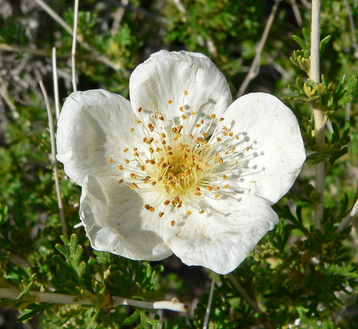 Photo of Fallugia paradoxa in the desert at the west end of Cheyenne Ave, Las Vegas, Nevada (Lone Mountain area)